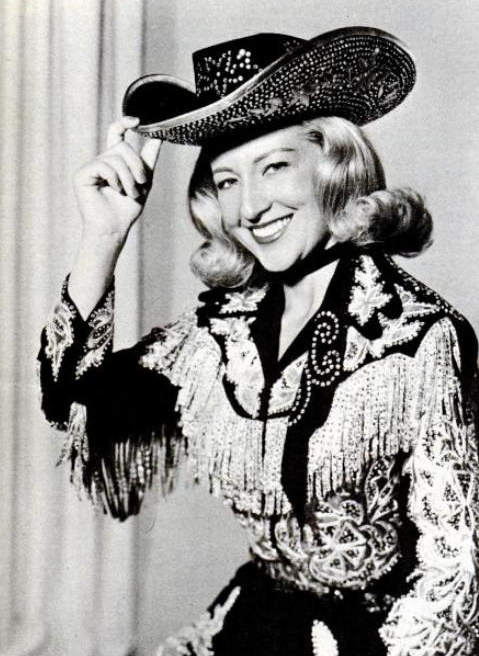 Trade ad for Judy Lynn's single "Miss, May I Drive You Home".To better adapt it to his respective Wikipedia article, the ad was cropped and cleaned in a graphics editing program. The original can be viewed at the source below.